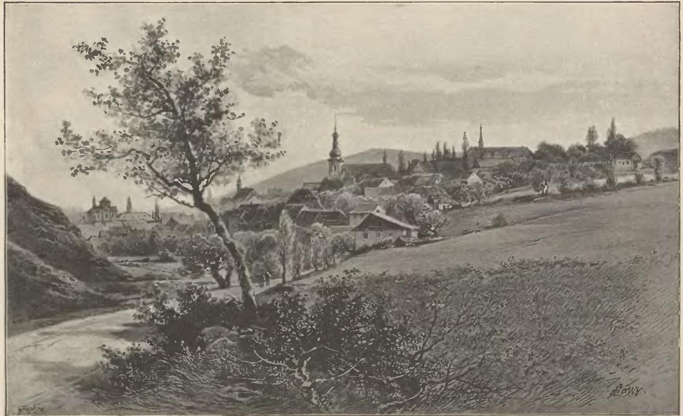 Panorama of Doupov, a demolished city in a military area of present-day Czech Republic.